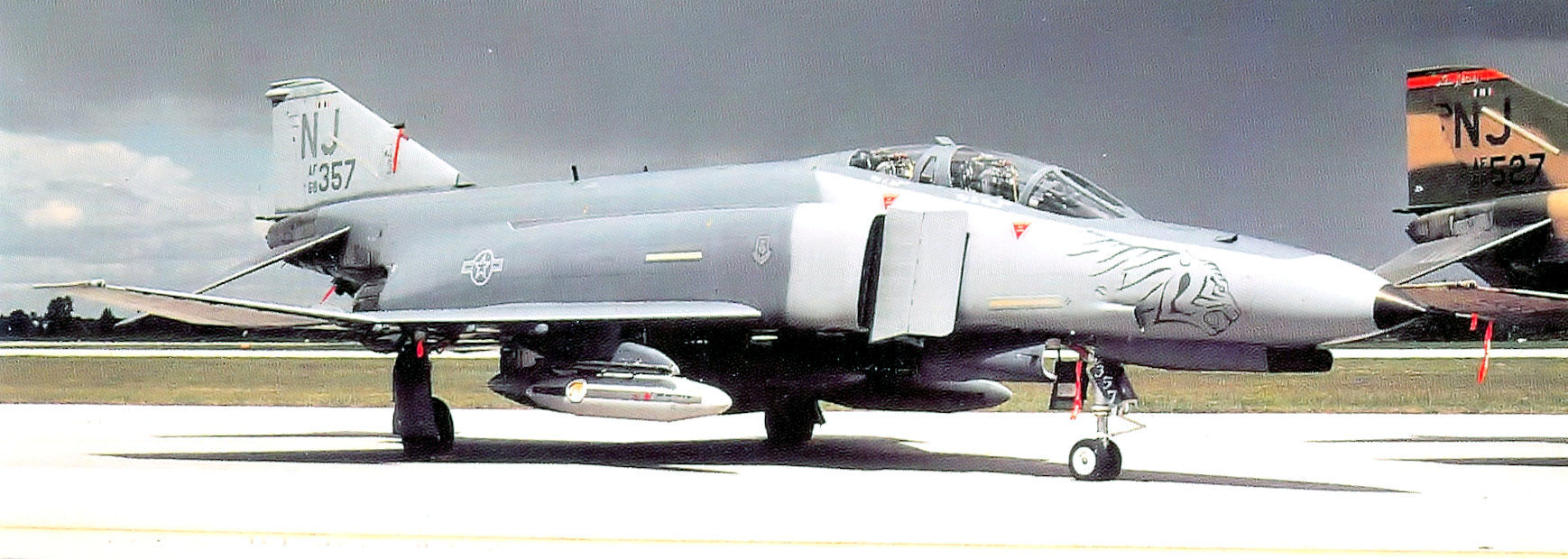 141st Tactical Fighter Squadron McDonnell Douglas F-4E-37-MC Phantom 68-0357. Aircraft retired to AMARC as FP0768 Oct 2, 1991. Still on AMARC inventory Jan 15, 2008.